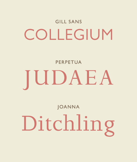 Specimens of typefaces by typeface designer Eric Gill, 14.02.07. Jim Hood.